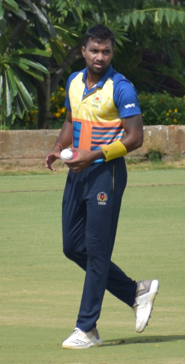 Indian cricketer Pankaj Rao during the 2019-20 Vijay Hazare Trophy in Alur, Bangalore.